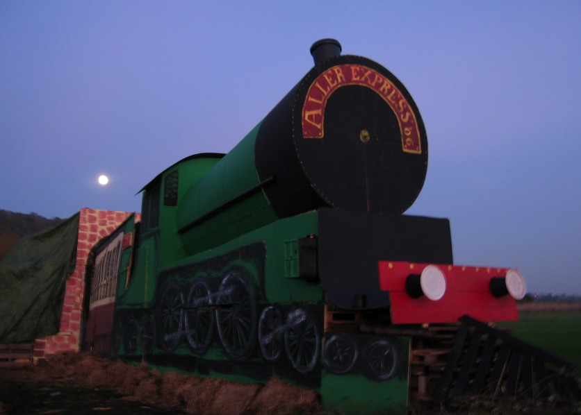 Moonlight over the "Aller Express," a model steam train engine made of plywood and wooden pallets, which was set ablaze on Bonfire Night, 2006, in the village of Aller, Somerset.